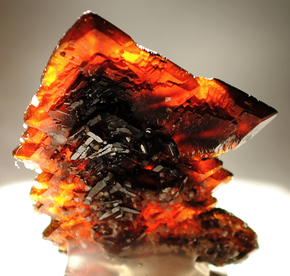 Descloizite Locality: Berg Aukas (Berg Aukus), Grootfontein District, Otjozondjupa Region, Namibia (Locality at ) Size: miniature, 3.6 x 3.1 x .9 cm Descloizite A superb miniature with excellent spear-point bladed crystals of Descloizite from what is unarguably the best locality for the species in the world. This specimen of sharp gemmy crystals, grown en echelon, has excellent lustre and some very showy color at the terminations! It is, in my opinion, just a tremendous specimen for a species which is usually dismissed as dull and earthy. Anything but, it is one of the best Descloizites I have ever seen (and with one of the larger xls of species for height). Ex. Gene Meieran collection to me, to Marty in the late 1990s.